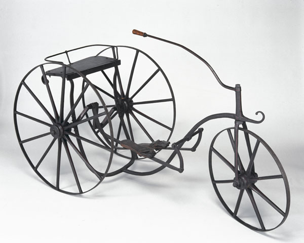 An object from the collections of the Science Museum (London) as copied from their ObjectWiki.